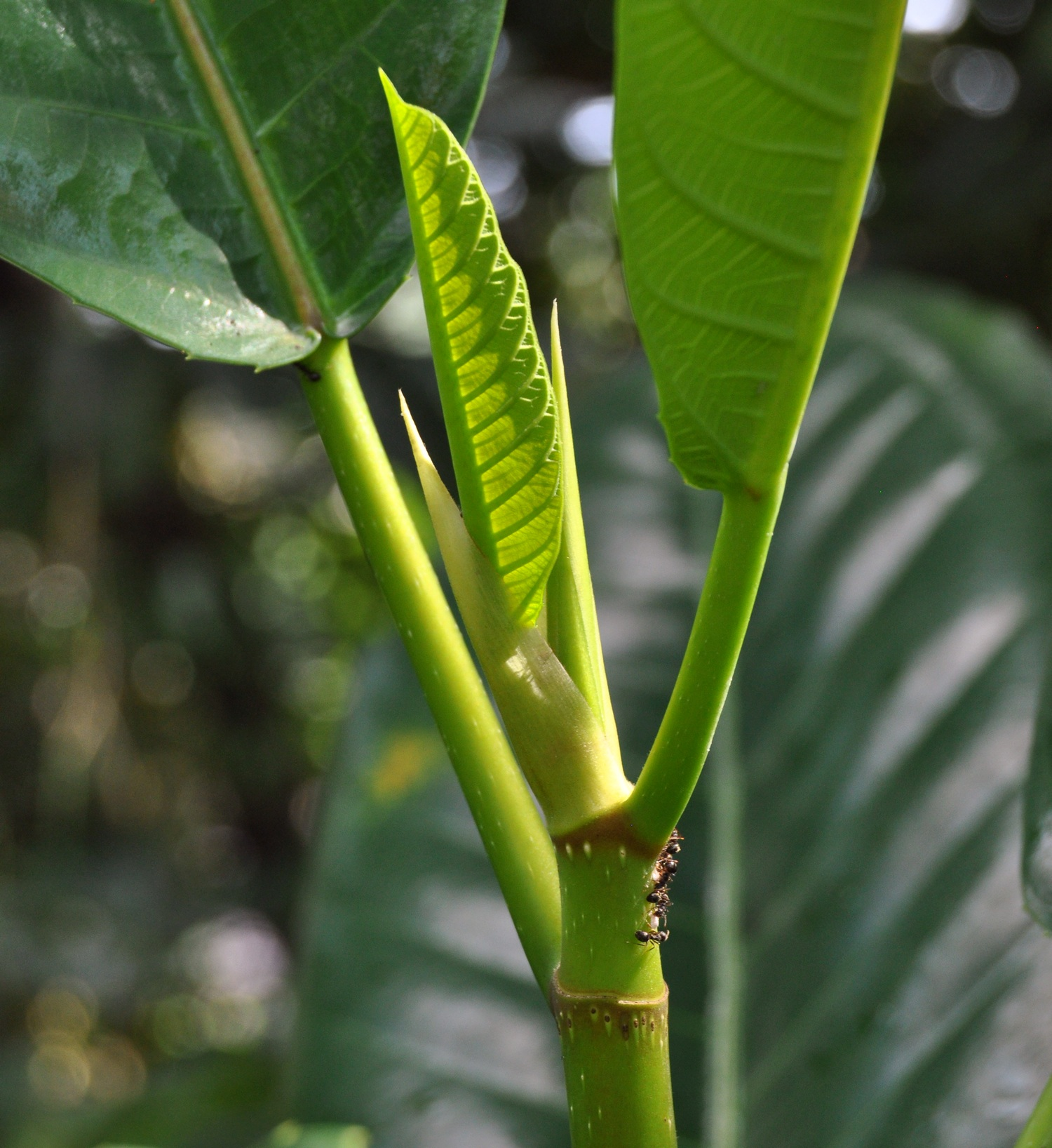 A pair of stipulae of Ficus sp. Photographed in Bogor, West Java, Indonesia.